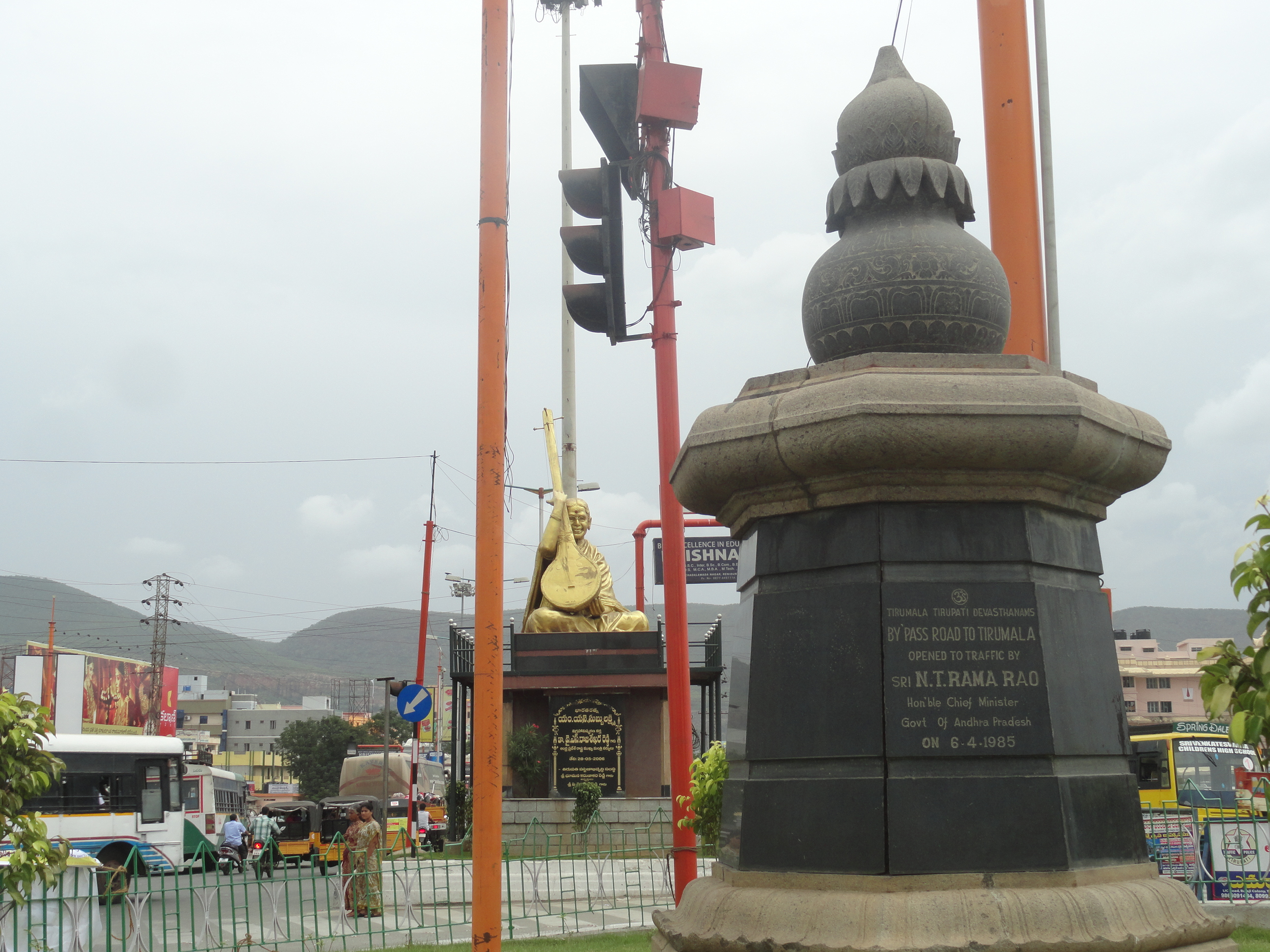 పూర్ణకుంబం. తిరుపతిలో